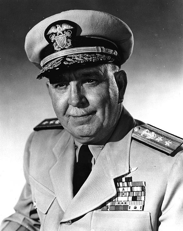 Black and White photography of John Madison Hoskins in Service Dress Khaki U.S Navy uniform and hat with rear admiral insignia